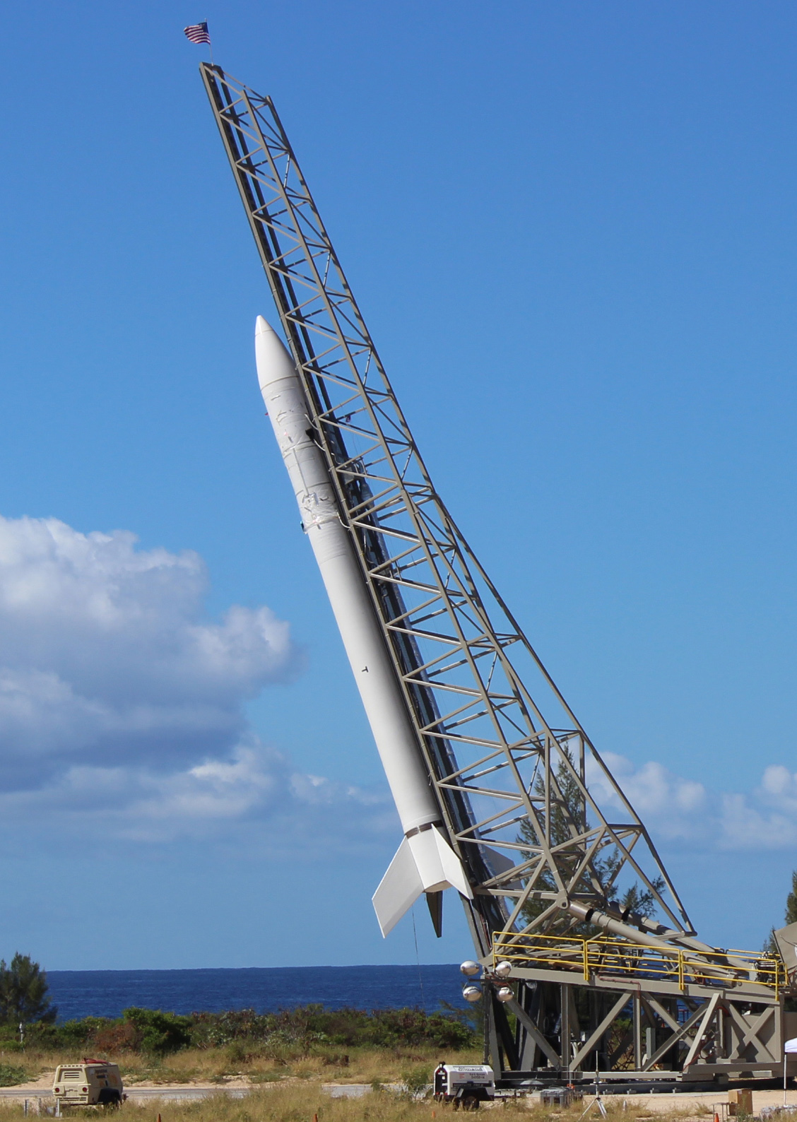 Super Strypi rocket with HiakaSat at KTF